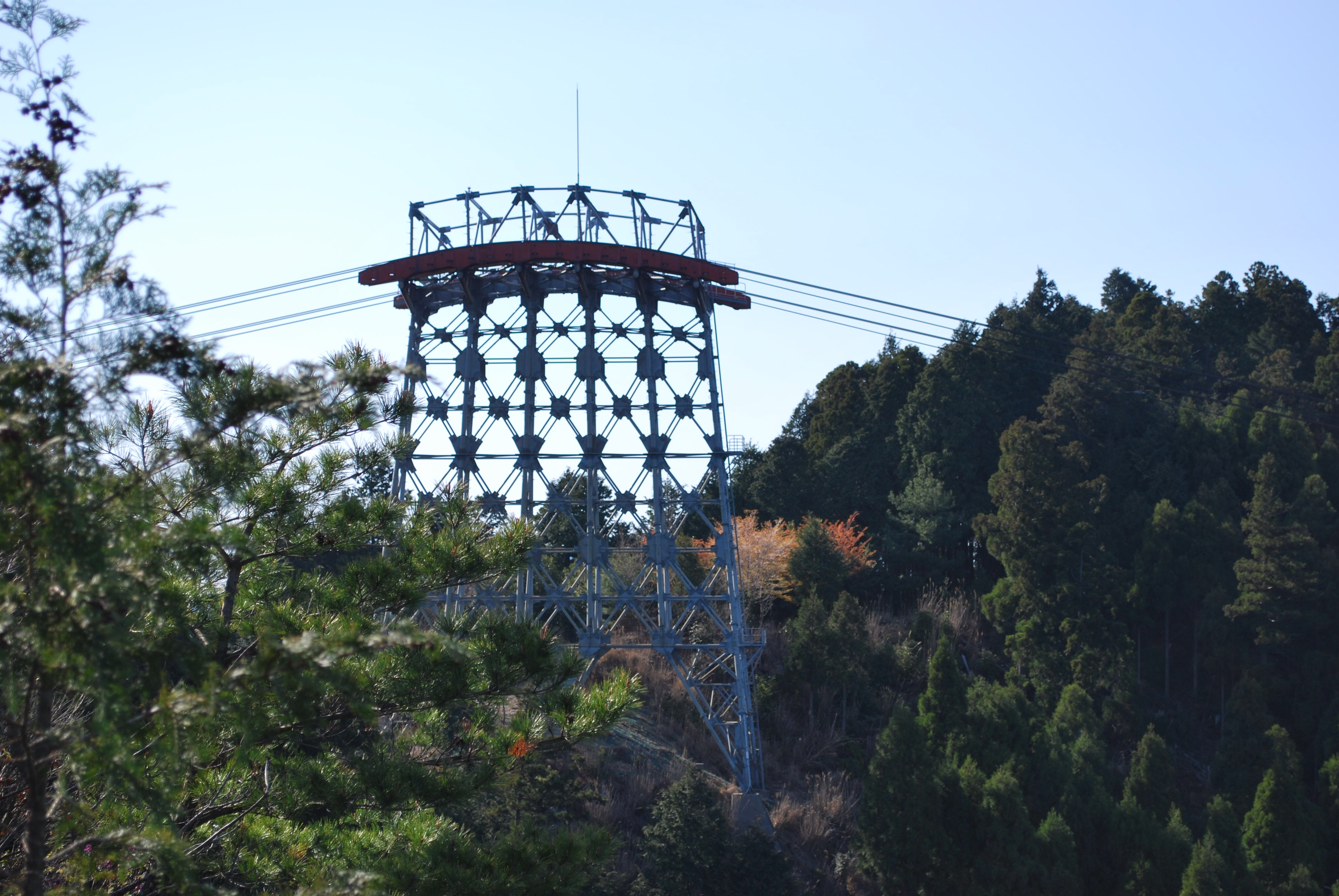 Tairyūji Ropeway pillar